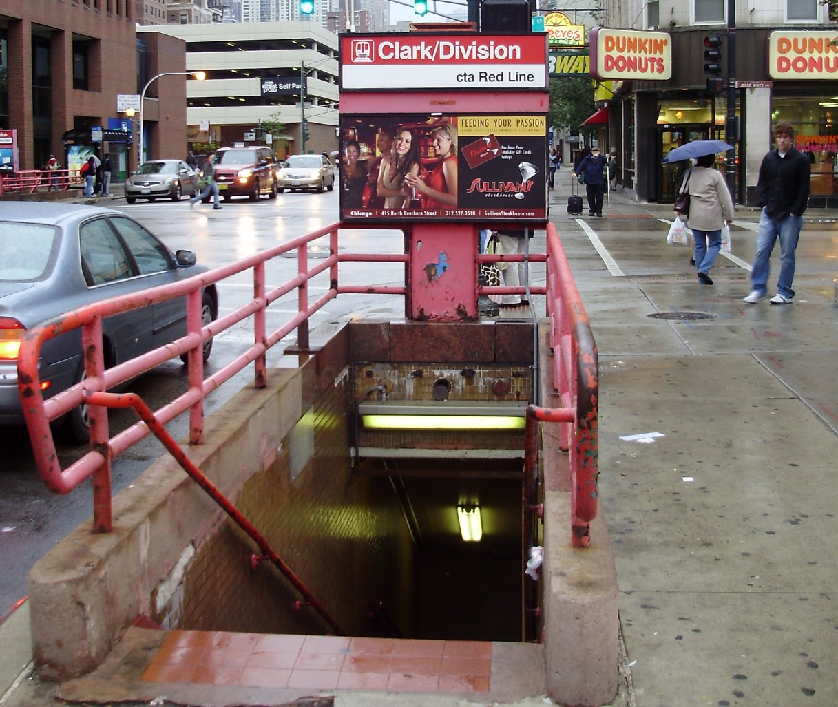 An entrance to Clark/Division station, a subterranean station on the Chicago Transit Authority's 'L' rapid transit network in Chicago, Illinois, USA.